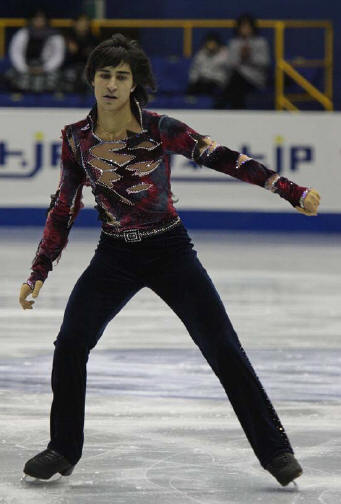 Ivan BARIEV (RUS) Grand Prix Final 2008 – Juniors